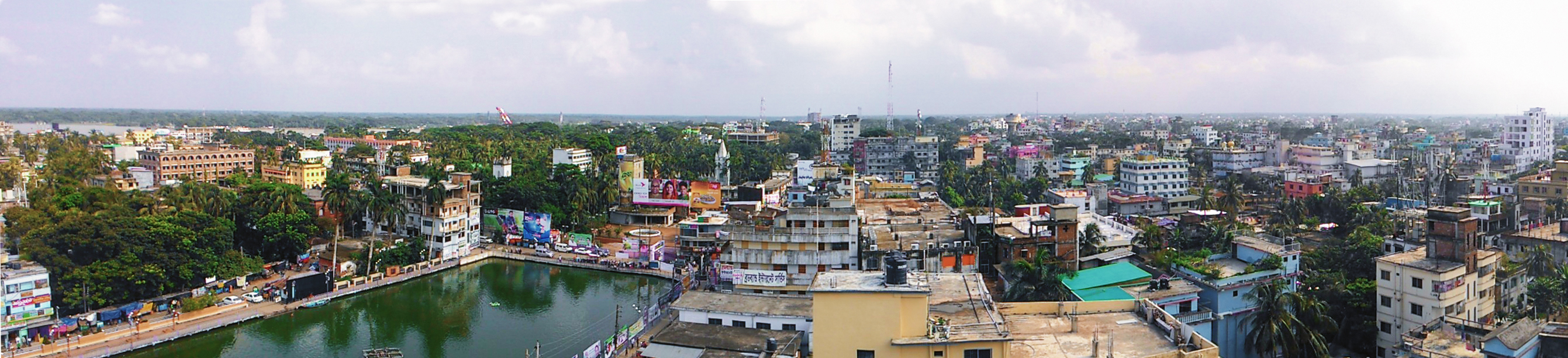 Barisal Cityscape, 2015